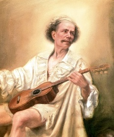 It is a fragment of "The last years of Ximénez" painting by the painter Rafael Ramirez.